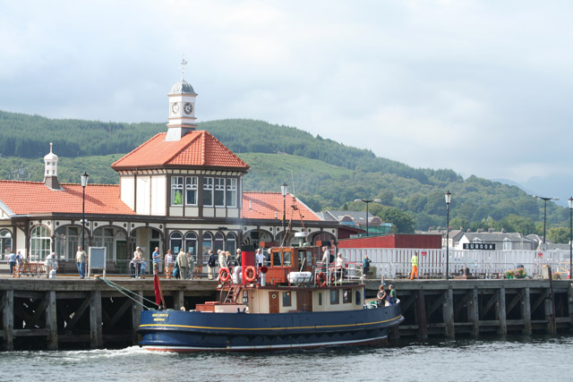 Dunoon Pier Tourist boat "Kenilworth" moored at the pier.